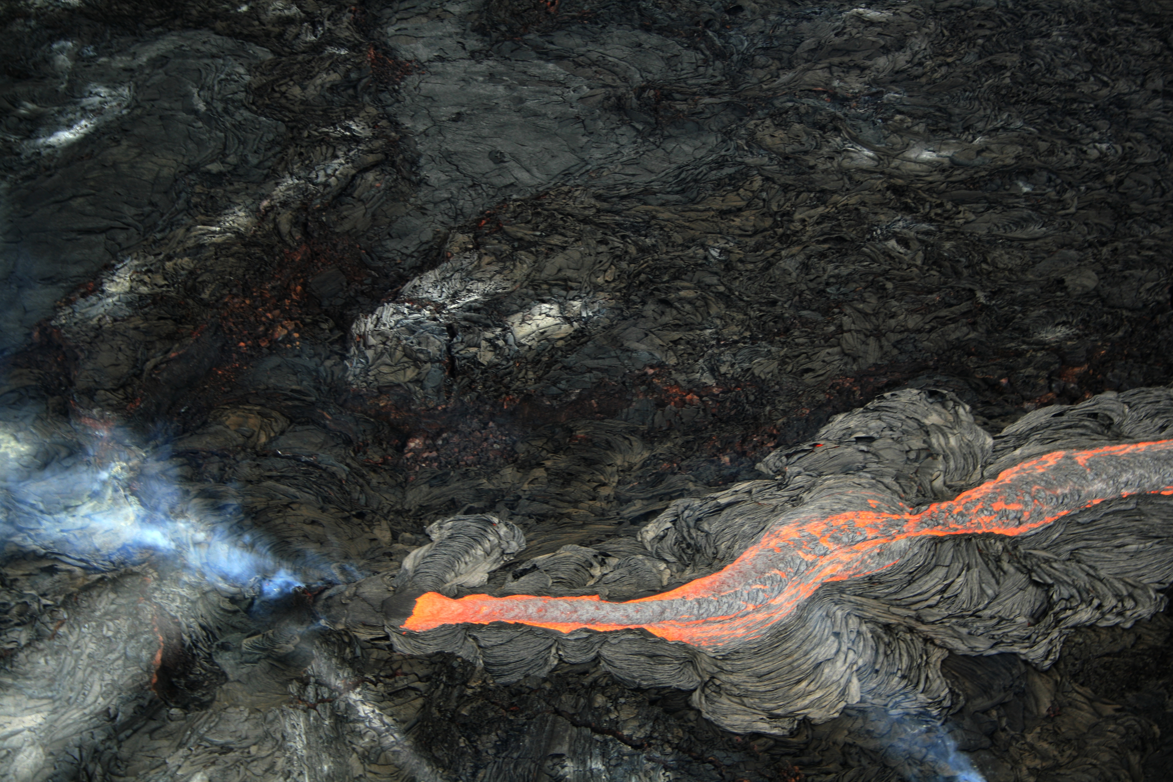 Pāhoehoe Lava flow at The Big Island of Hawai. The picture was taken from a helicopter.